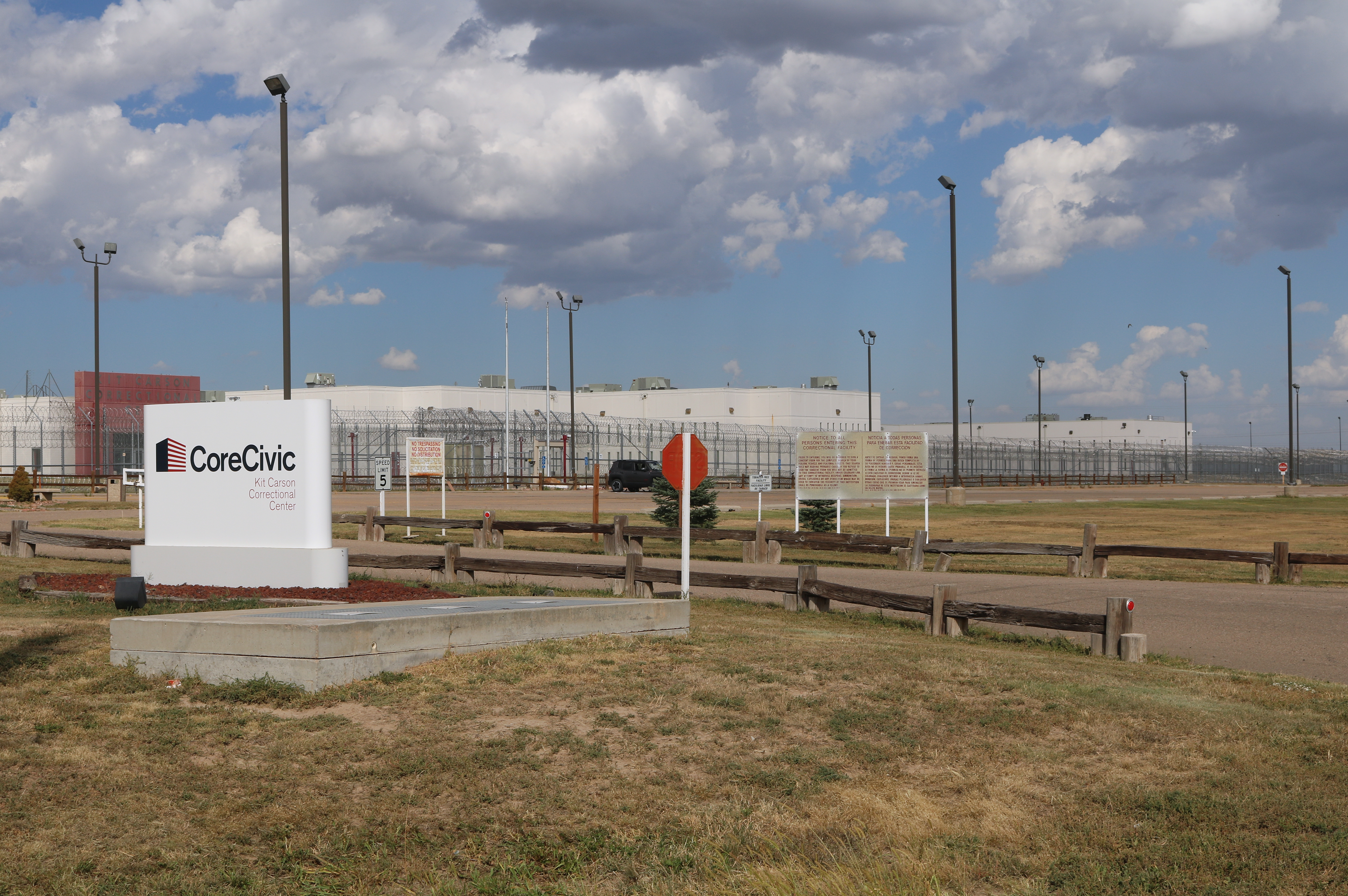 The Kit Carson Correctional Center, located at 49777 County Road V in Burlington, Colorado. The facility operated from 1998-2016.